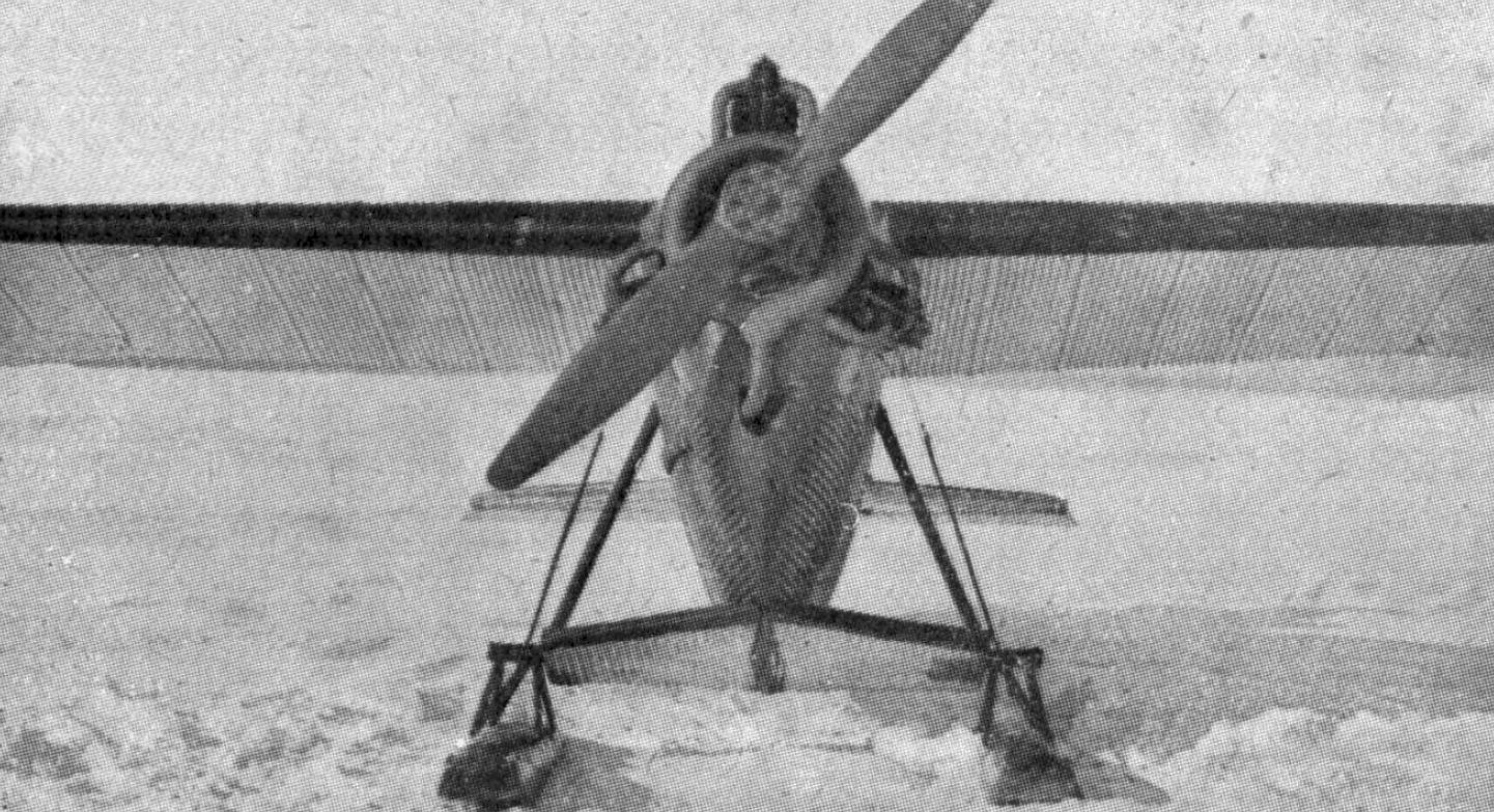 Tupolev ANT-2 on skis. Photo from L'Aéronautique April,1929